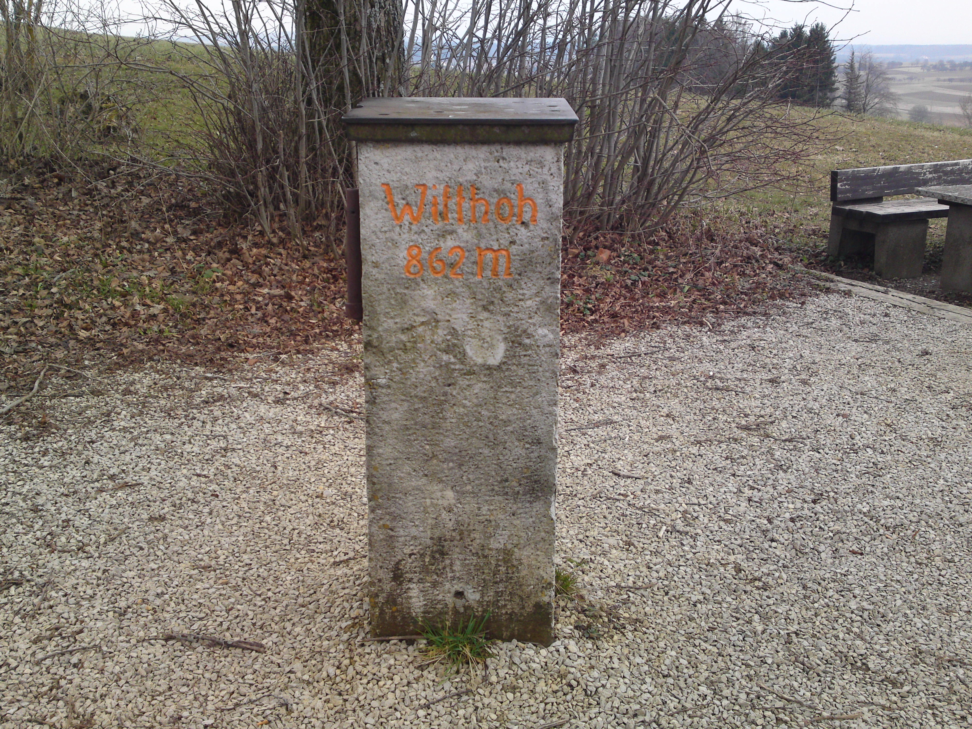 Witthoh - 862 meters